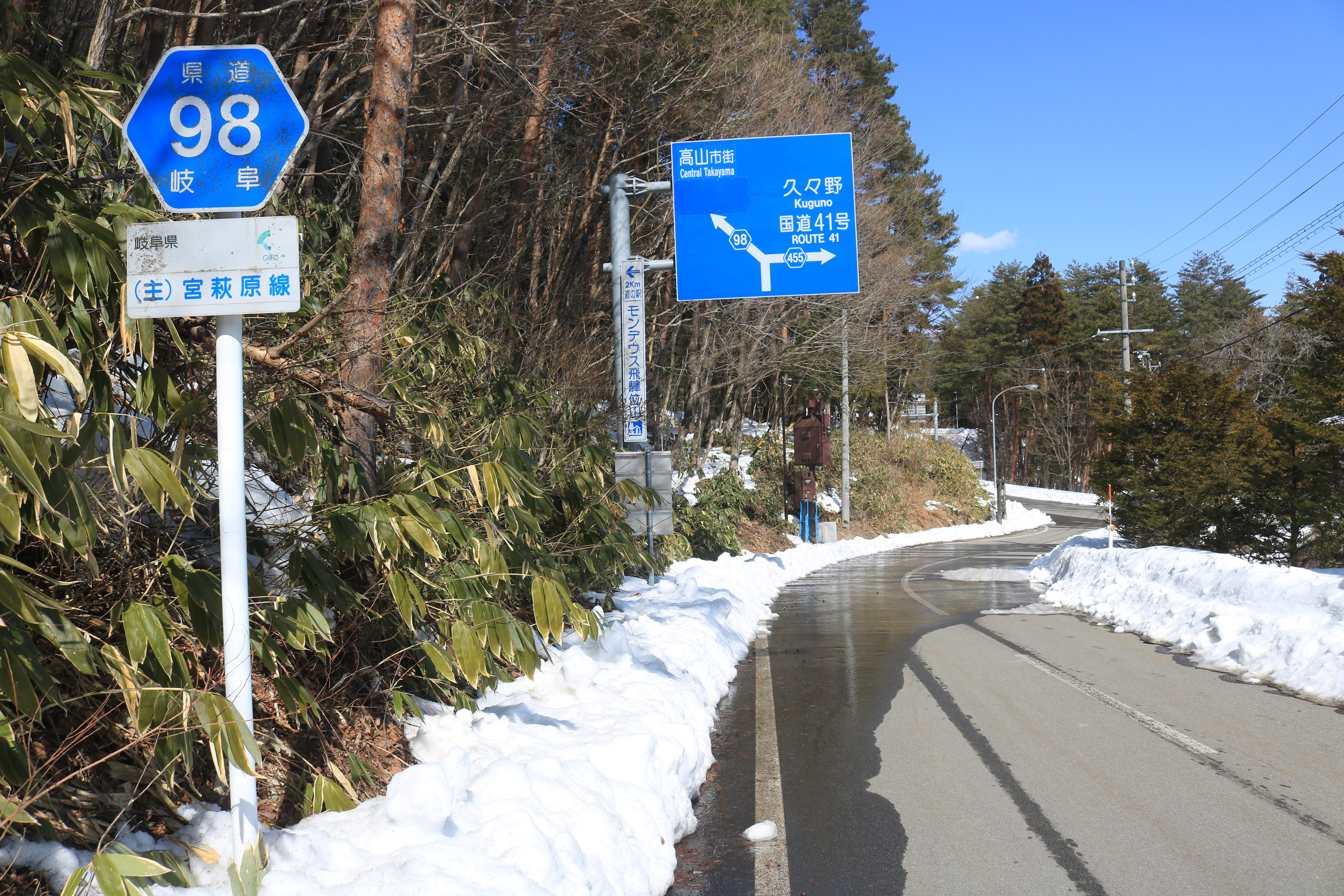 Gifu Prefectural Road Route 98 and Gifu Prefectural Road Route 455 in Ichinomiyamachi, Takayama, Gifu Prefecture, Japan.